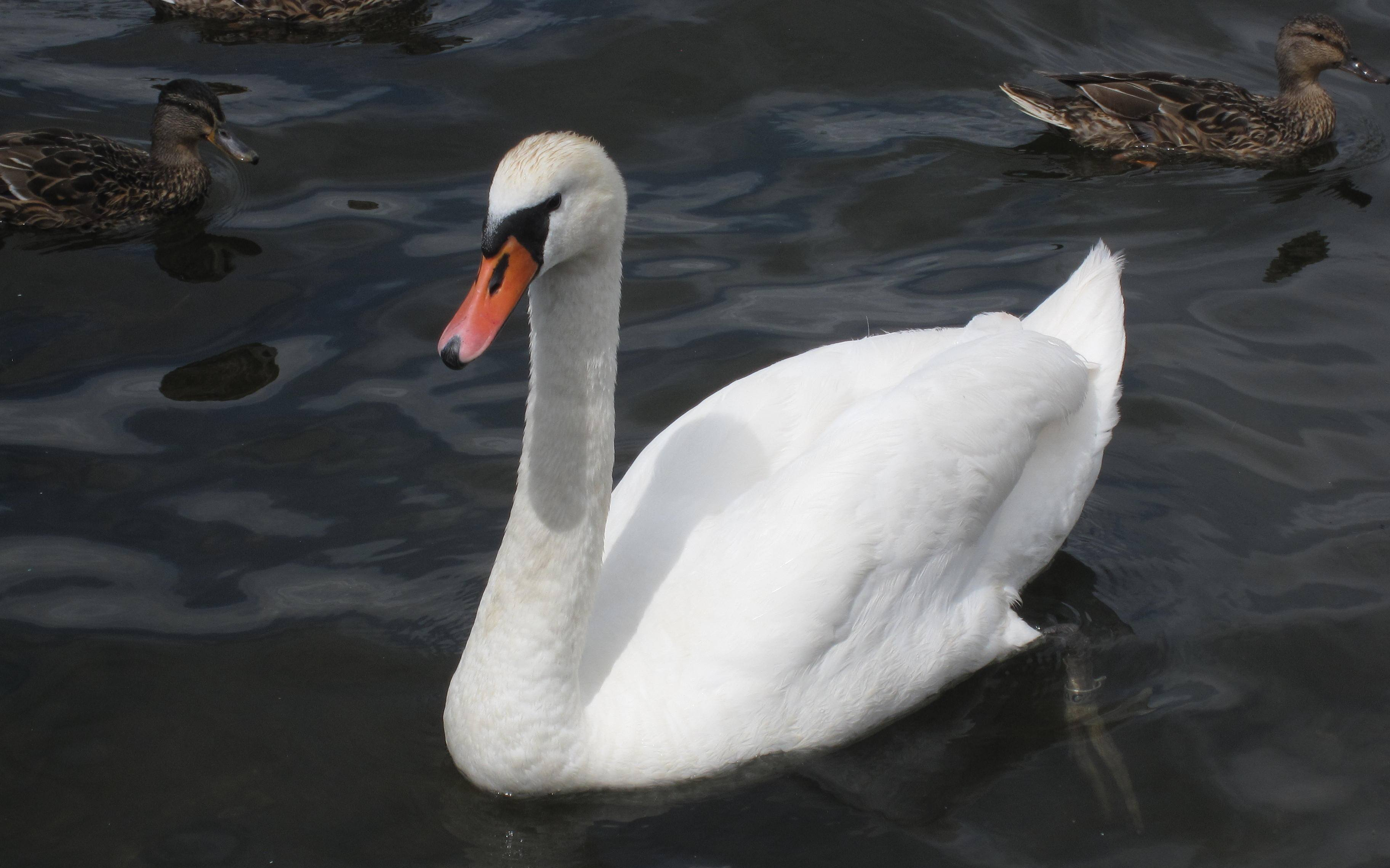 Wildlife and Plants of Israel